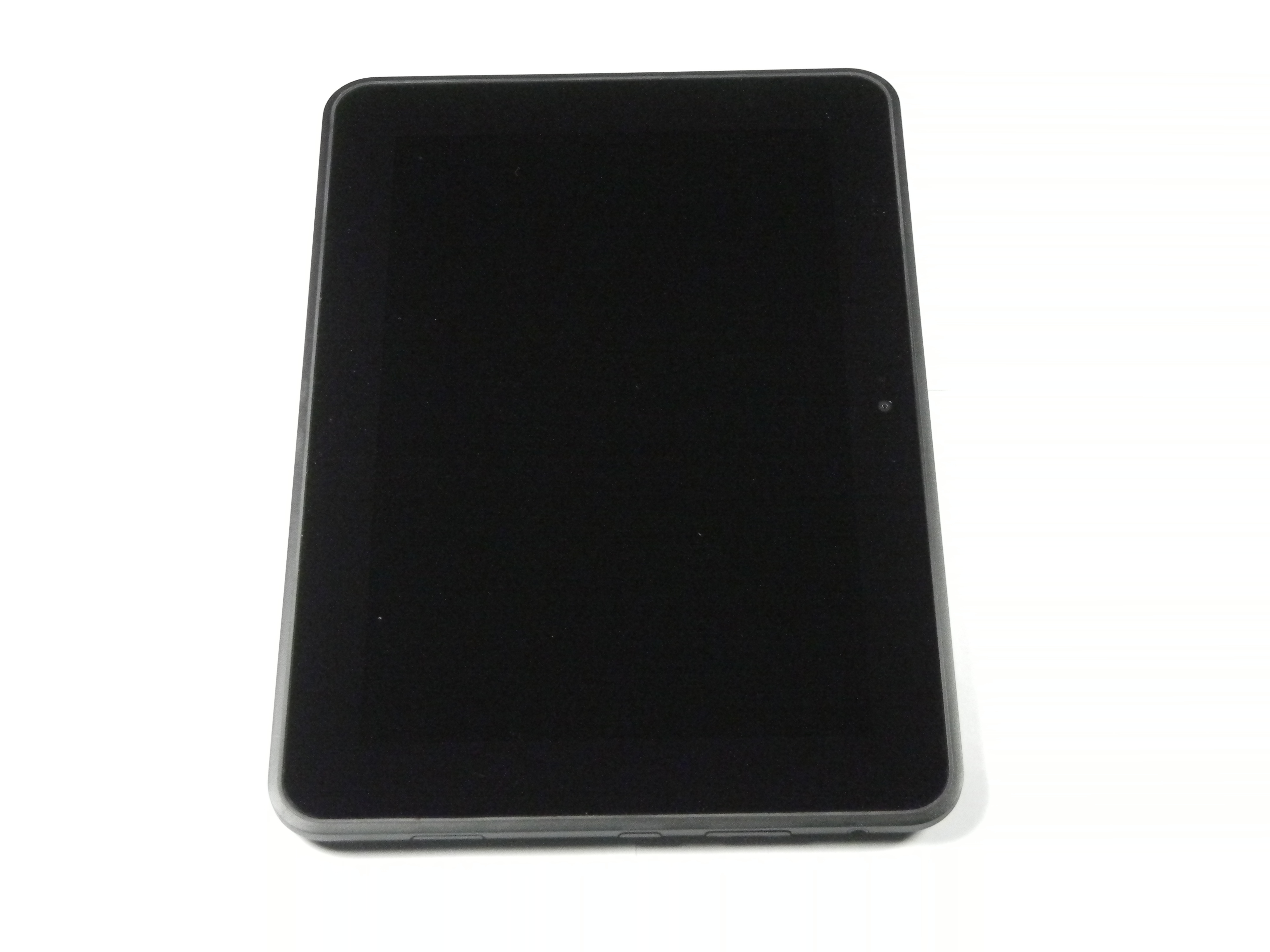 This is the Amazon Kindle Fire HD 8.9.